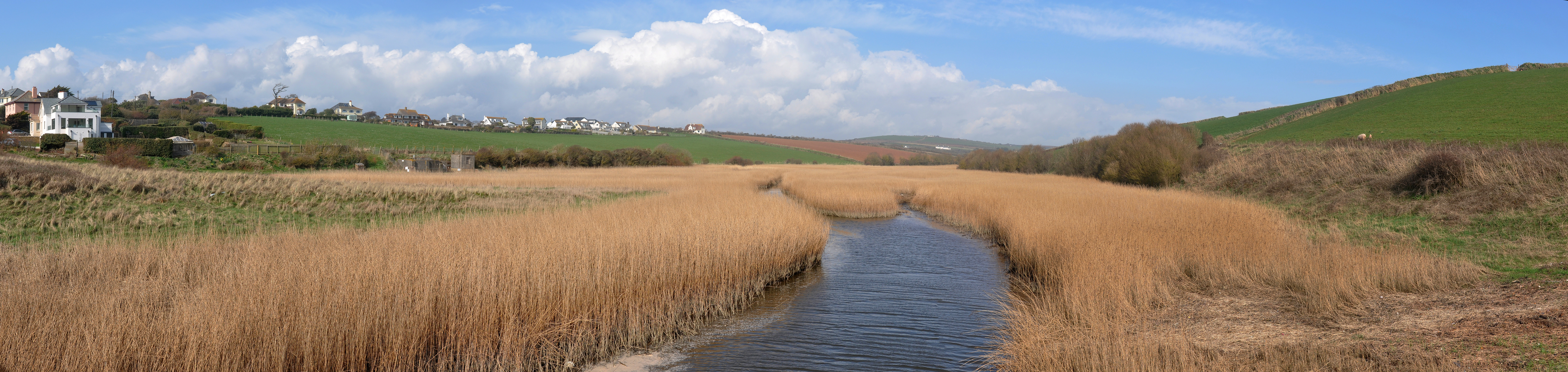 South Milton Ley in the south of Devon, UK. The Ley is a SSSI and is protected from the sea by a sandbar. The photo is taken from the coast path on the footbridge crossing the lower end of the Ley.